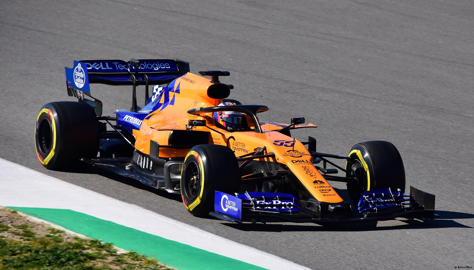 2019 Formula One tests Barcelona, Sainz.